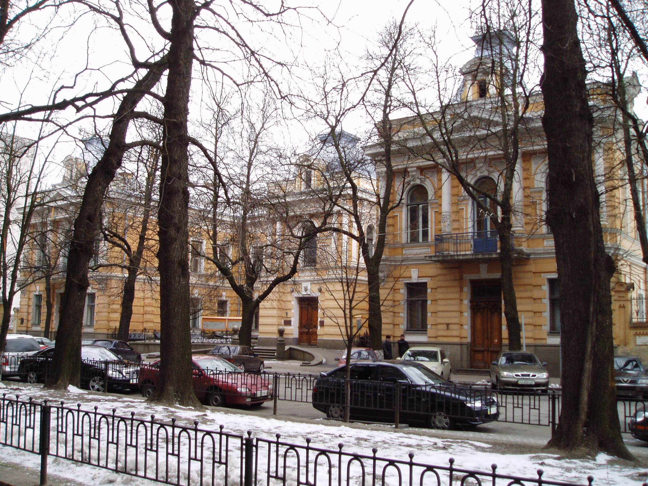 A historic building of Liberman manor in Kyiv. Nowadays the head office of the Writer's Union of Ukraine